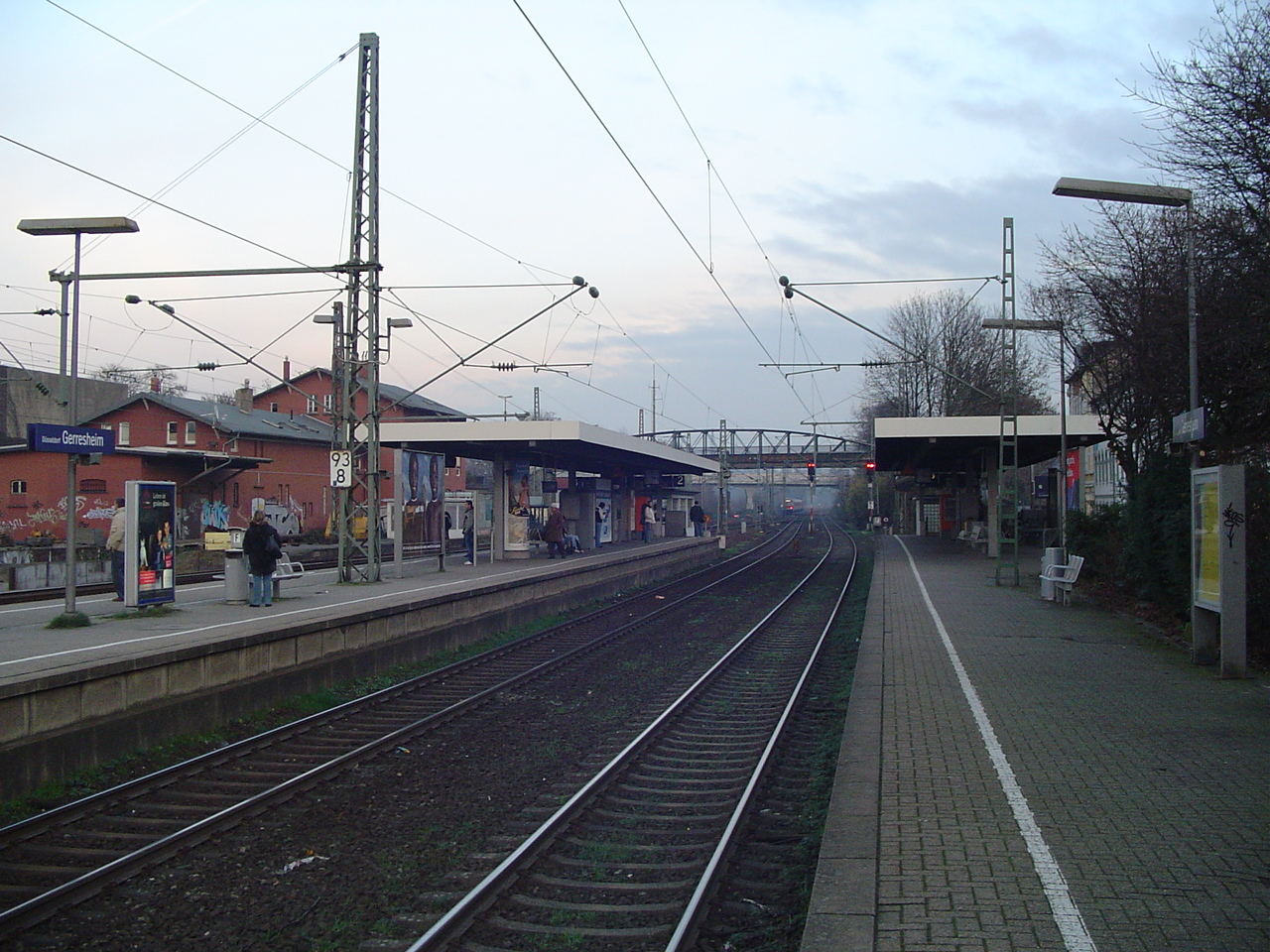 Train station in Düsseldorf-Gerresheim, Germany